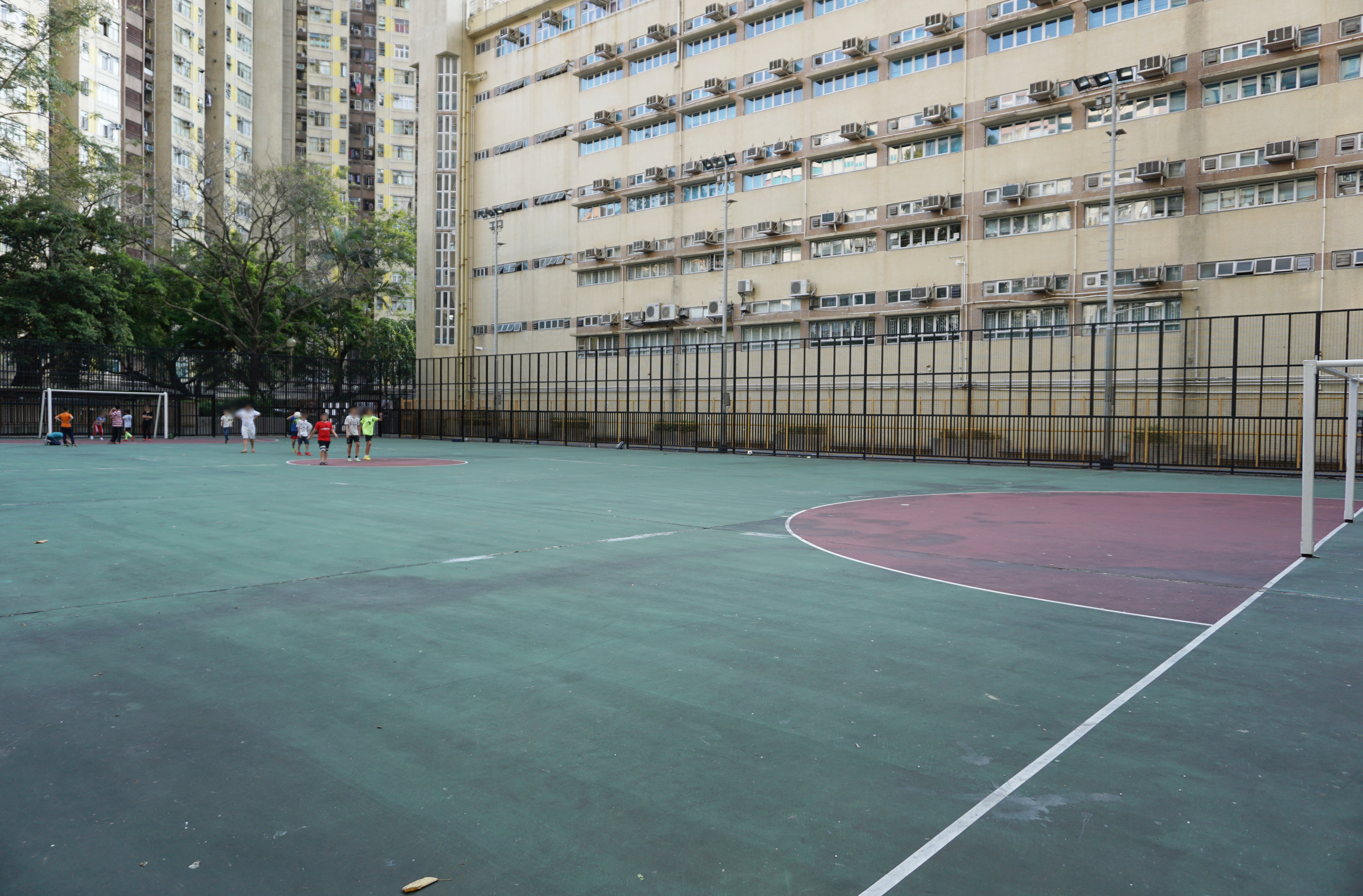 Shan King Estate in Tuen Mun, Hong Kong.